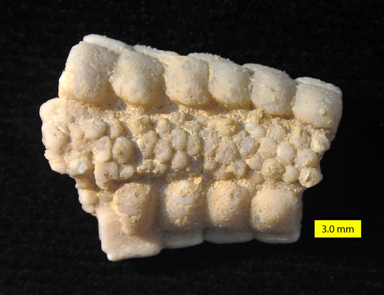 Asteroid ray fragment (oral surface; Family Goniasteridae); one meter from the top of the Zichor Formation (Coniacian, Upper Cretaceous) in southern Israel.